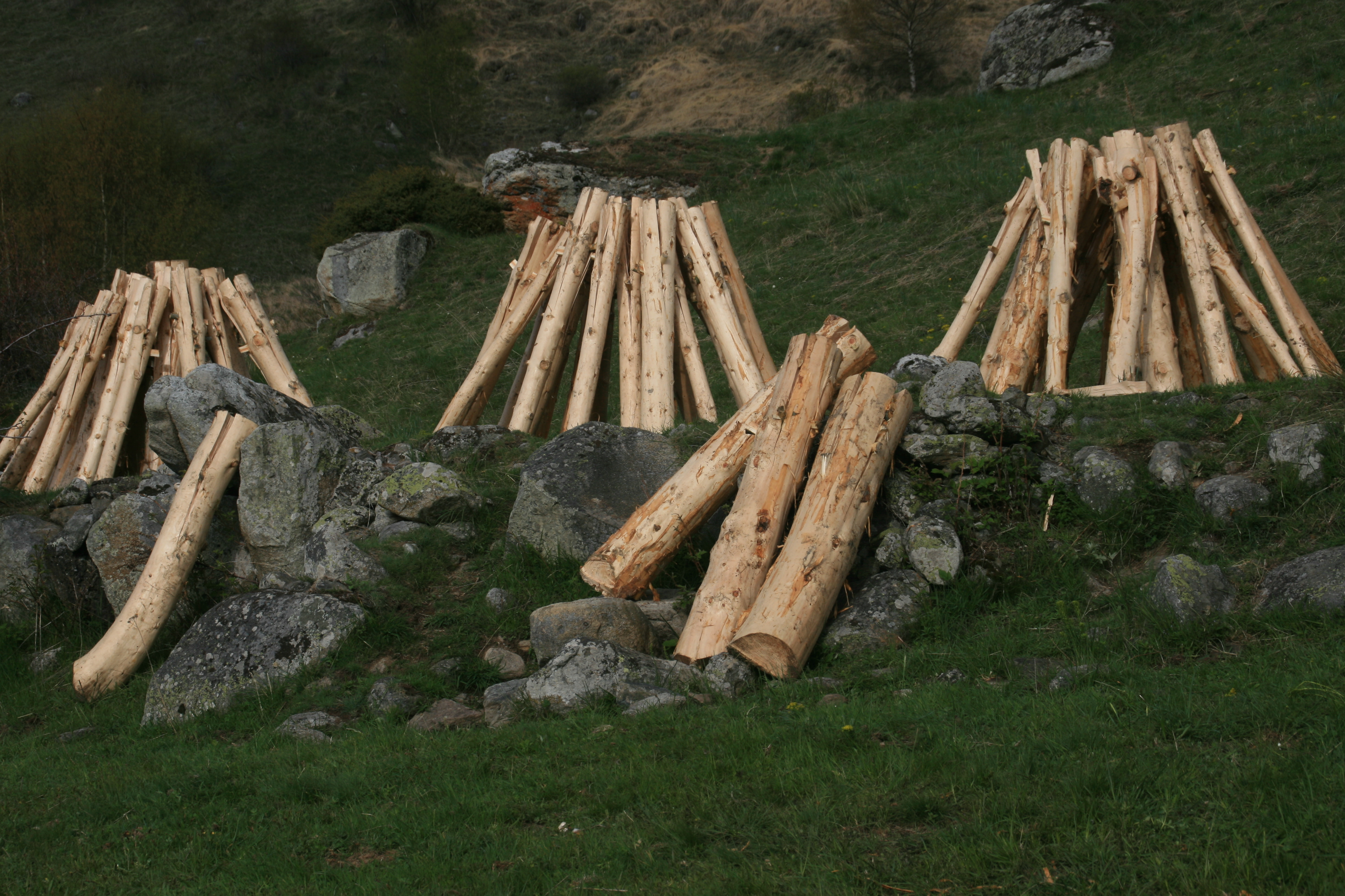 The "Falles" are ready